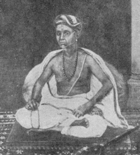 A painting of the Carnatic music composer, Tyagaraja (1767–1847), from the Jaganmohan palace in Mysore. The painting features in MS Ramaswami Aiyar's 1927 biography of Tyagaraja.